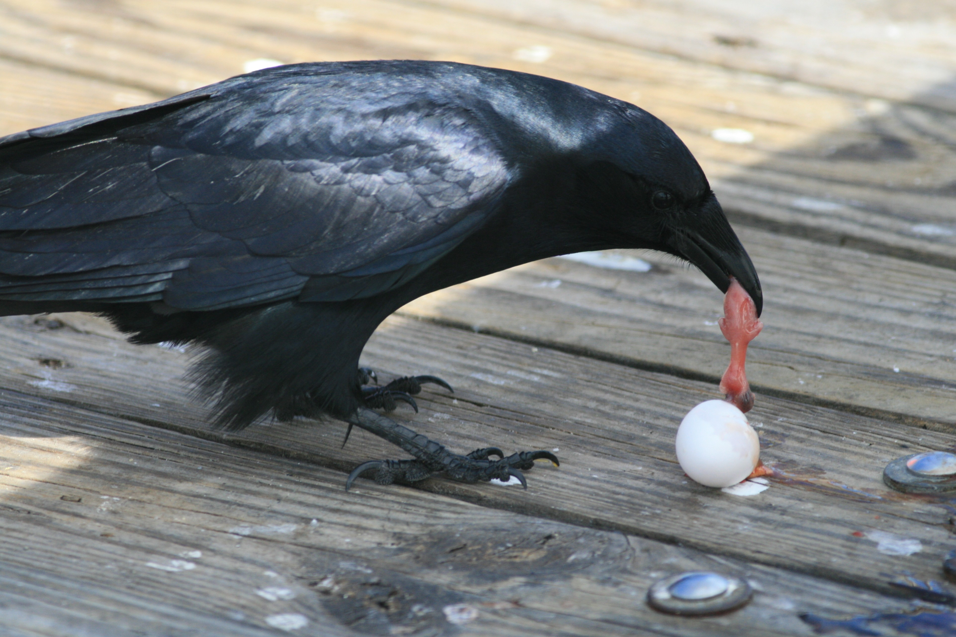 Fish crow and egg. Species ID is not 100% sure and primary based on the location of where the bird was found and distubution map. It could be an american crow (Corvus brachyrhynchos). It is eating a bird embryo from an egg.